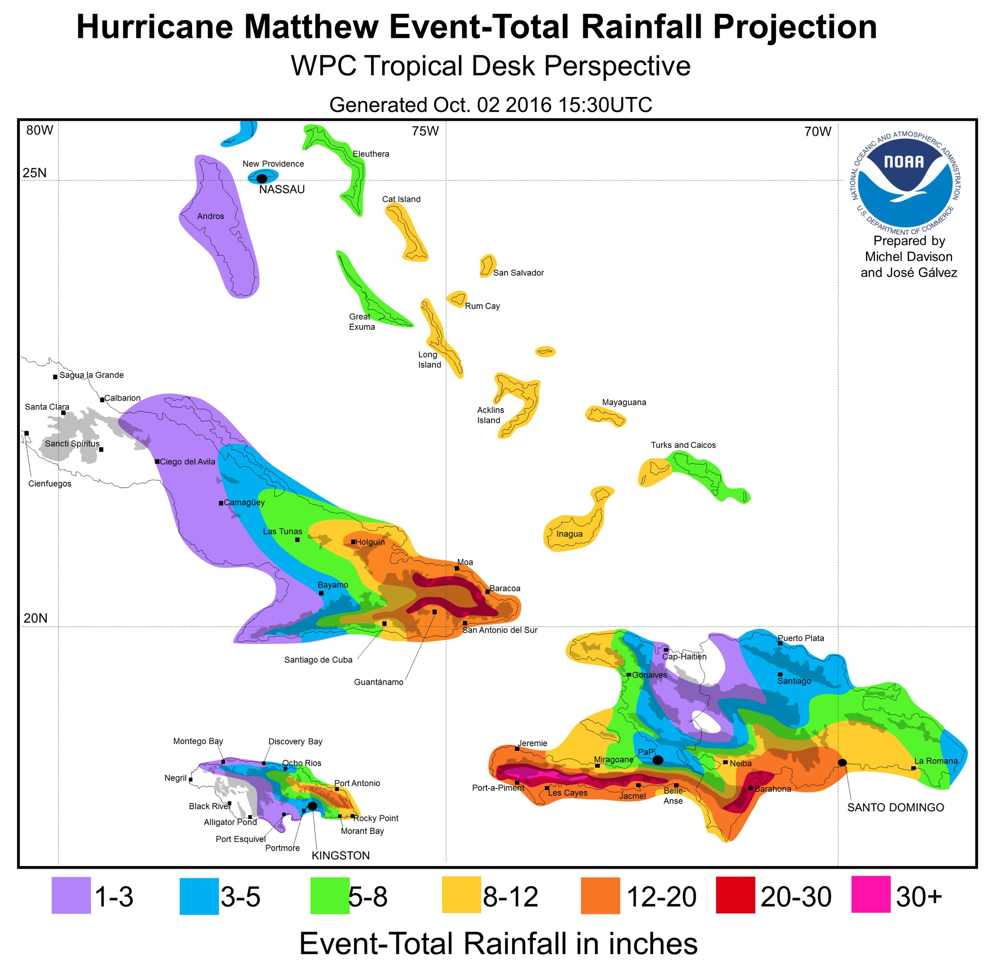 Rainfall forecast for Jamaica, Cuba, Hispaniola, and the Bahamas in relation to Hurricane Matthew in early October 2016.